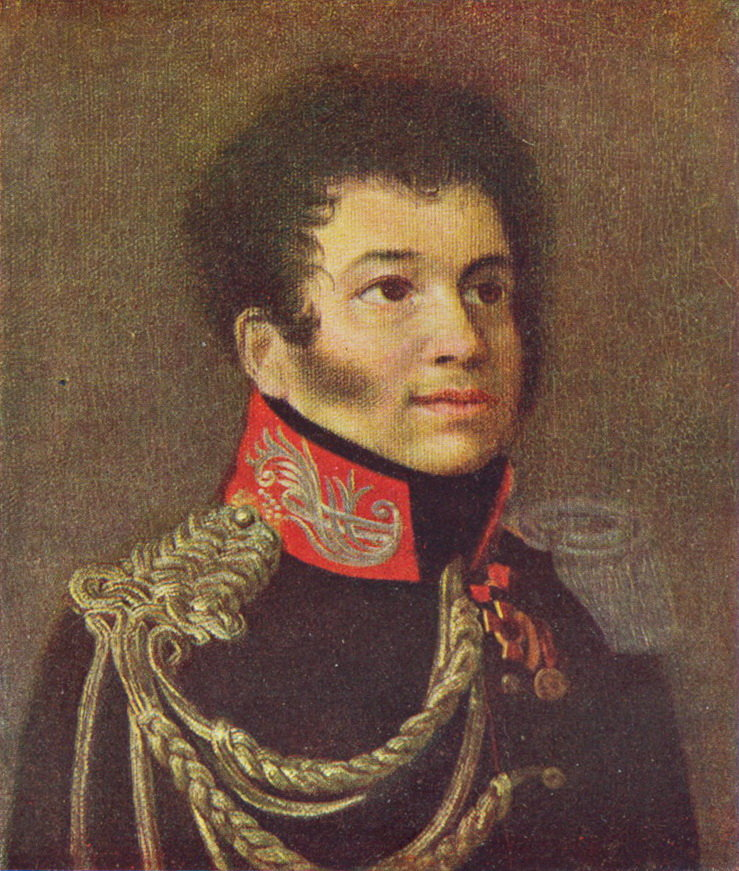 Marin, Sergey Nikolayevich